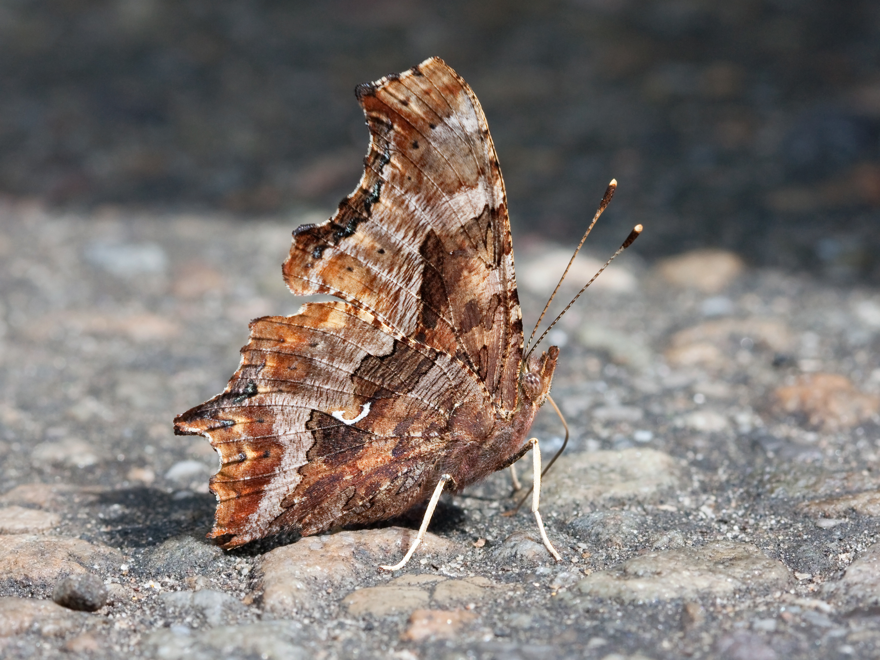 Eastern Comma butterfly (Polygonia comma) found along the Blue Ridge Parkway in North Carolina.